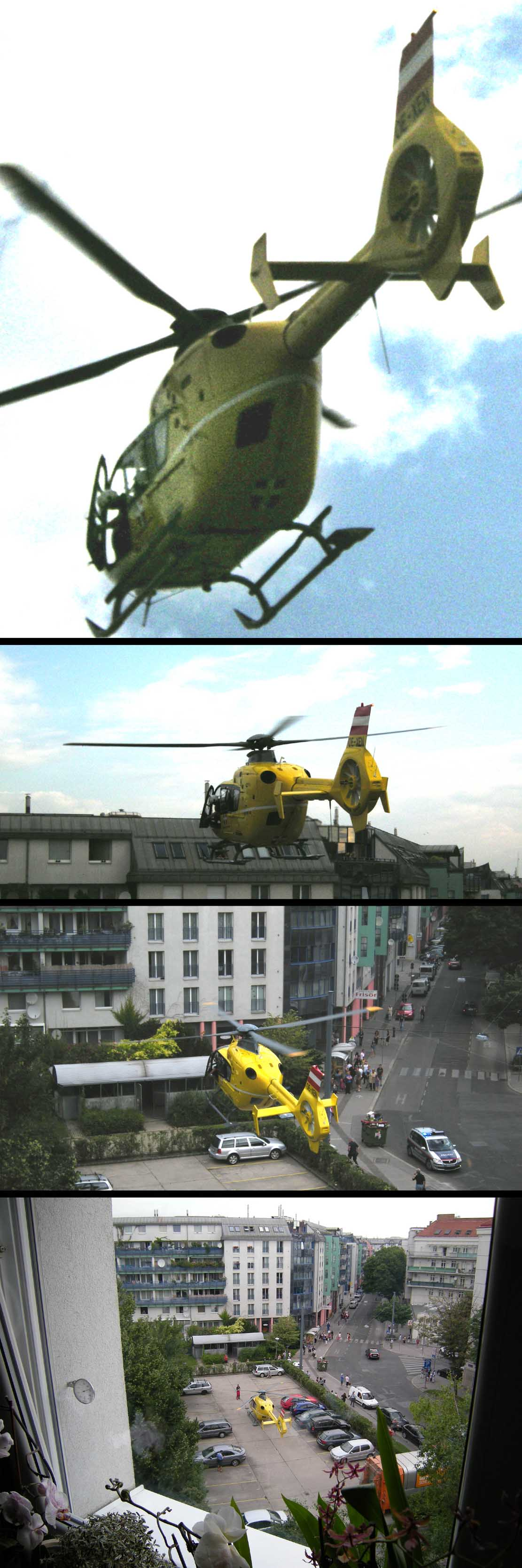 Christophorus 3 landing in Vienna, Austria (see filename).